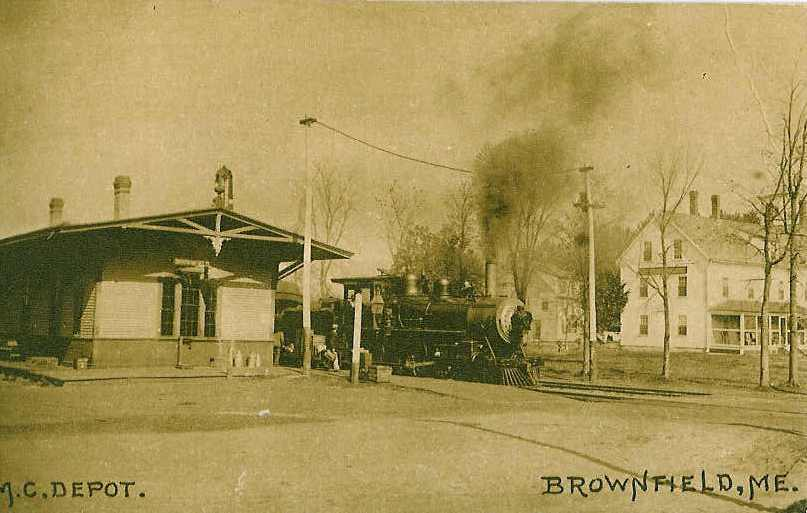 Maine Central Railroad Depot, East Brownfield, Maine